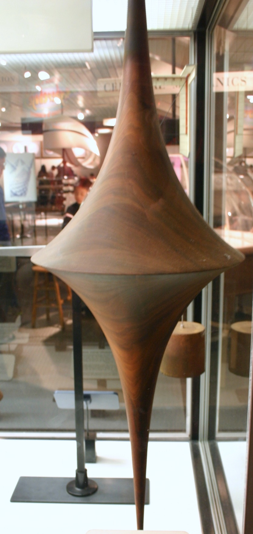 Part of the Mathematica exhibit.